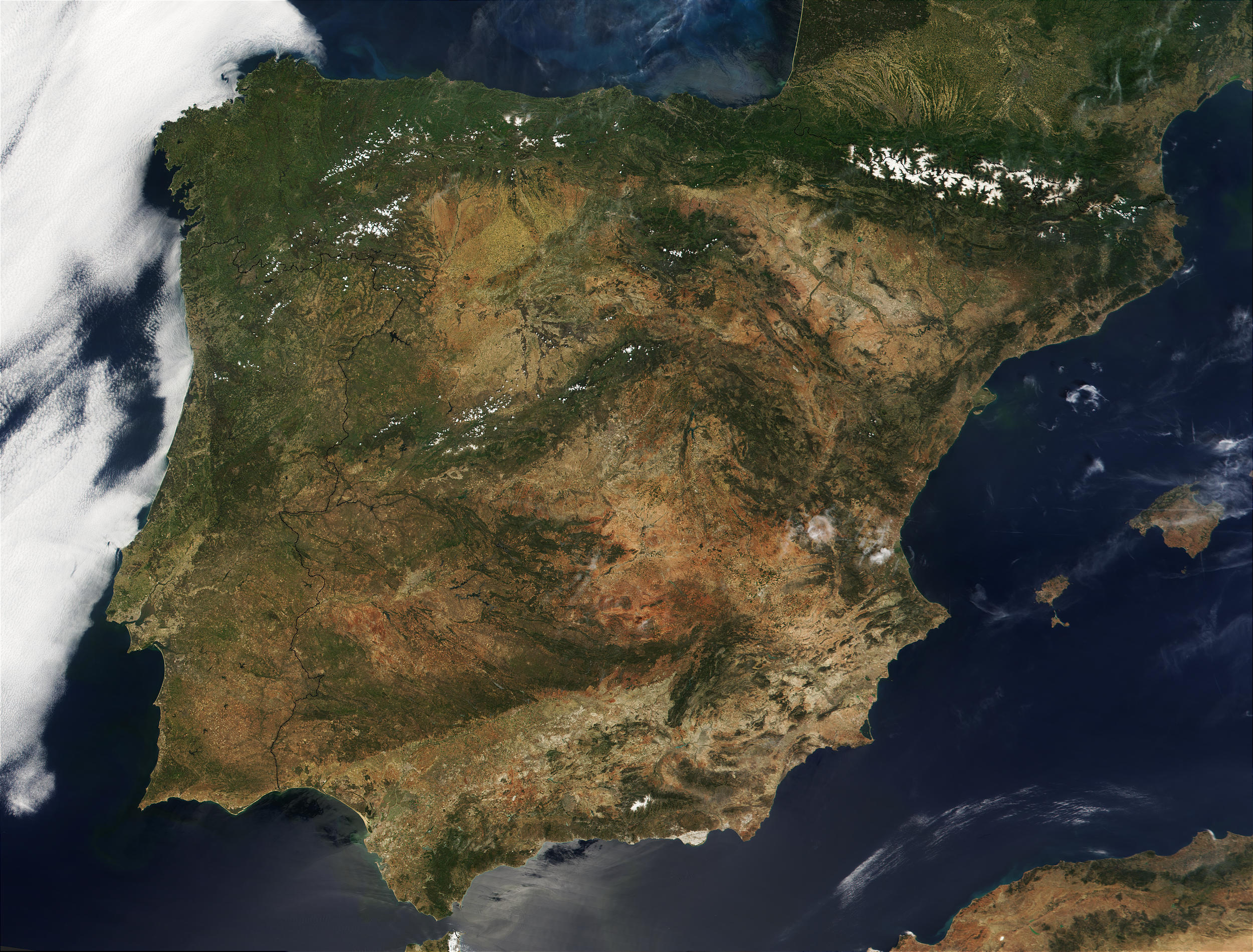 Satellite image of the Iberian Peninsula on May 2001.